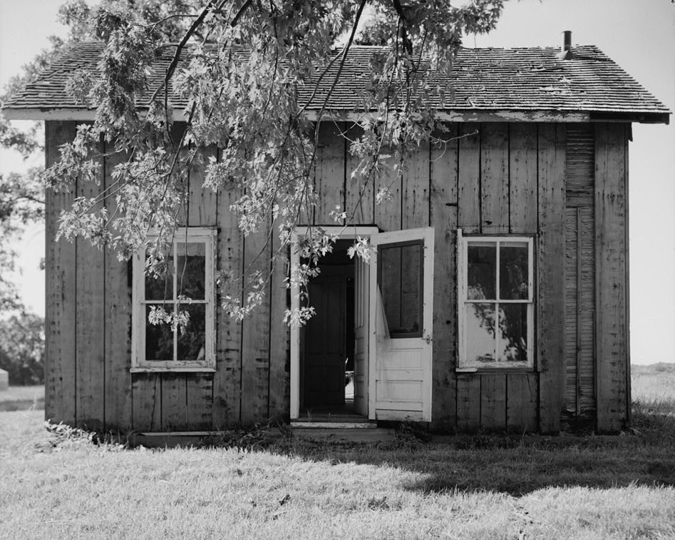 Herbert Maximilian Fox House, County Road 69, Santiago, Sherburne County, MN. The farmhouse, a small subsistence-type rural dwelling of mid-19th century Minnesota, is an example of pioneer architecture utilizing vertically arranged oak planks that are completely load bearing; no other known houses in Minnesota utilizing this type of vertical plank wall construction.